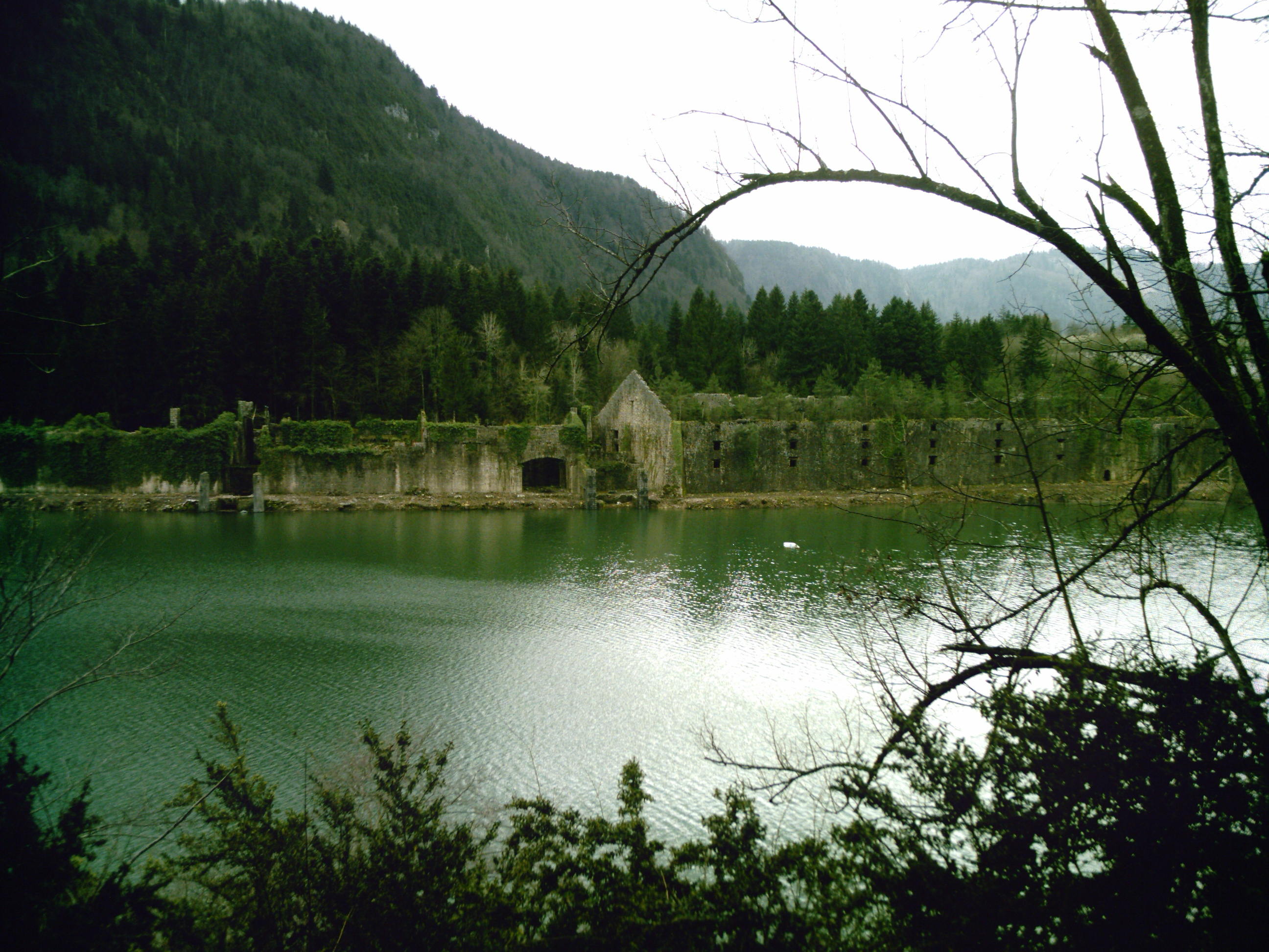 Ruins of Ice works Glacière du lac de Sylans.